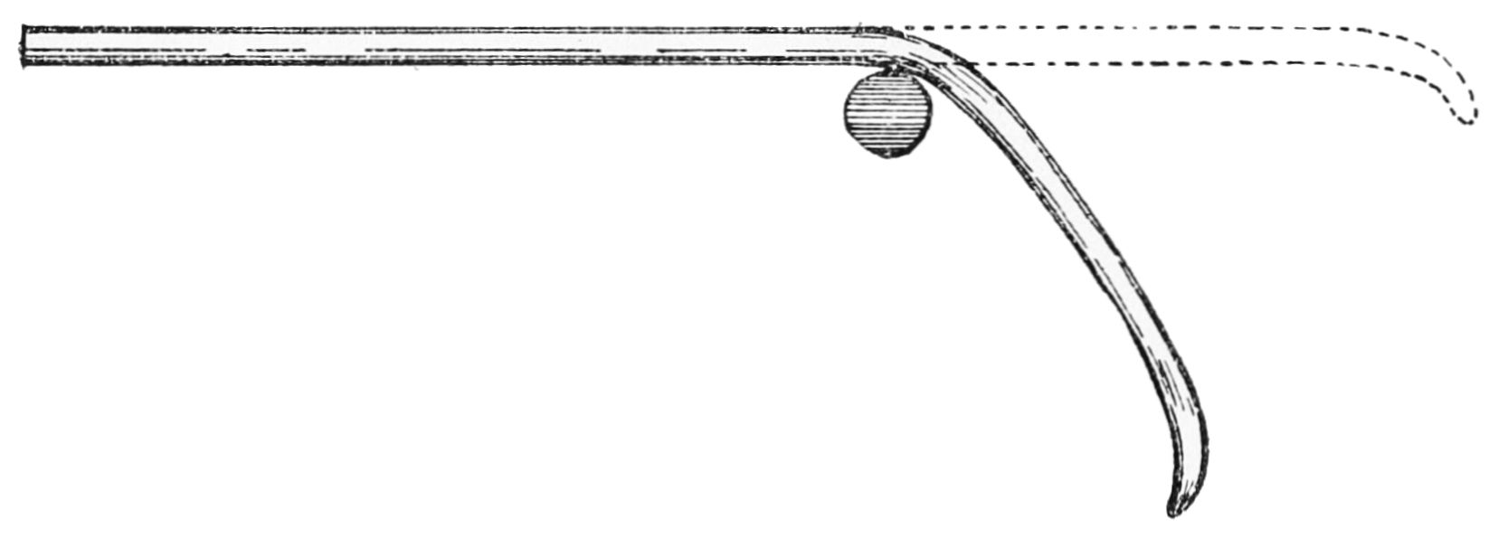 Passiflora tendril after contact with a wooden rod